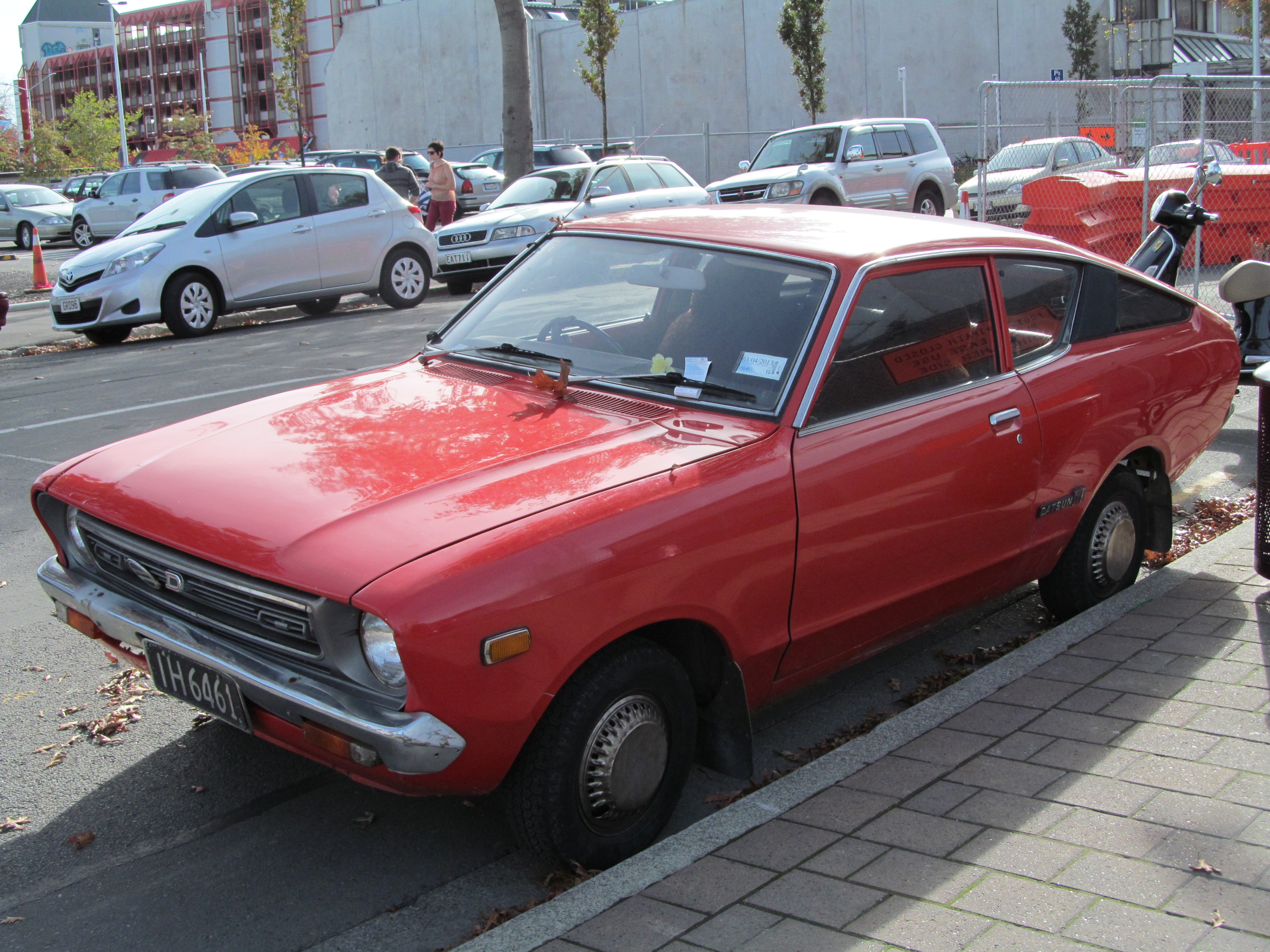 IH6461 I always preferred the 120Y coupe to the saloon or estate, as it almost has a mini-RA22 Celica look about it. This was tidy, although I doubt it is garaged.